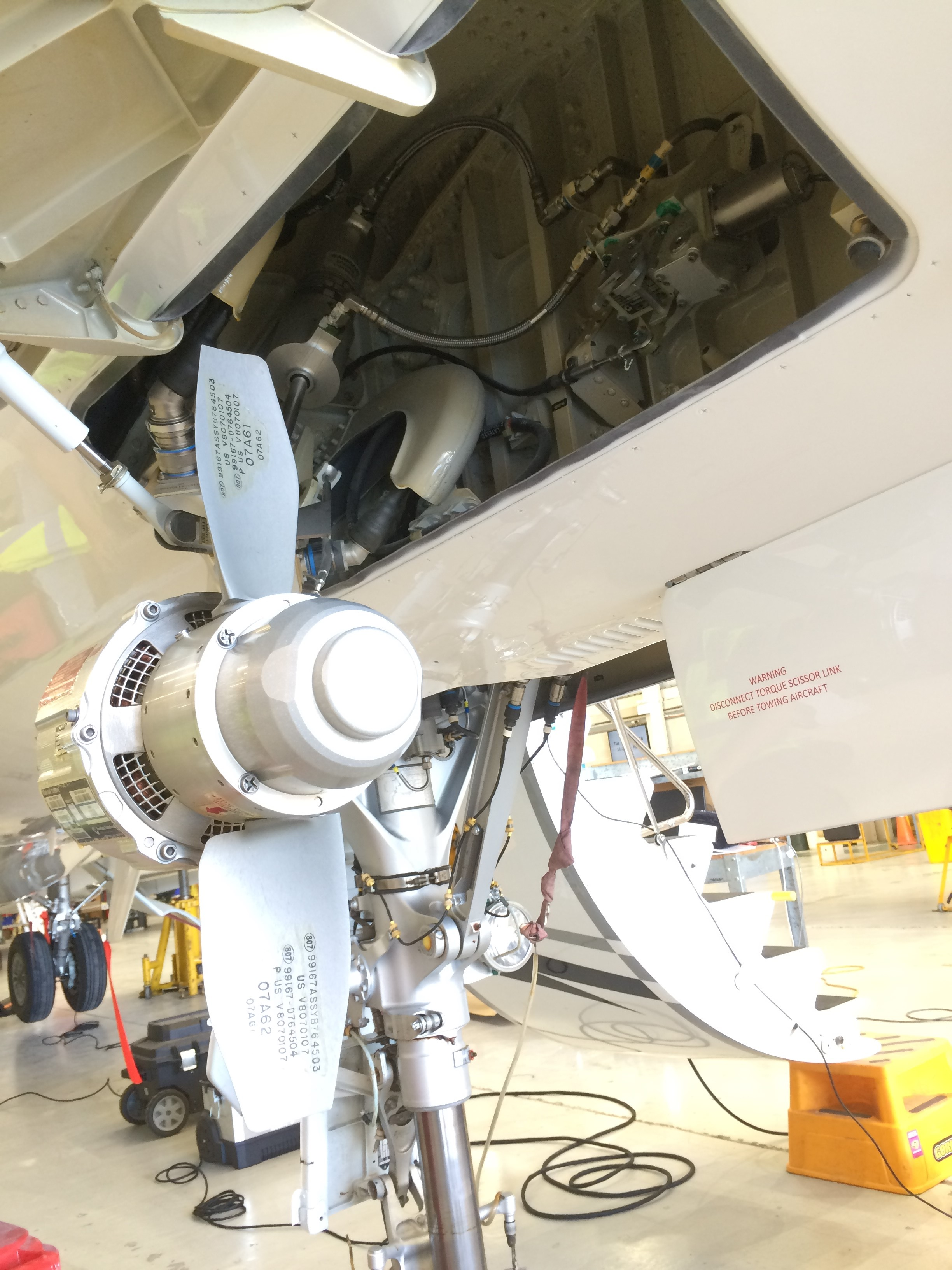 Dassault Falcon 7X ram air turbine (RAT) — consisting of a propeller-driven generator — extended for maintenance, with the RAT stowage bay on the RH lower forward fuselage open.